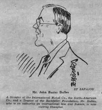 Caricature of John Foster Dulles on a 1938 visit to Shanghai